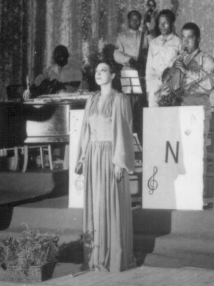 "Miss Josephine Baker, popular stage performer, sings the National Anthem as the finale to the show held in the Municipal Theater, Oran, Algeria, N. Africa. The band is directed by T/Sgt. Frank W. Weiss." May 17, 1943. 111-SC-17523.